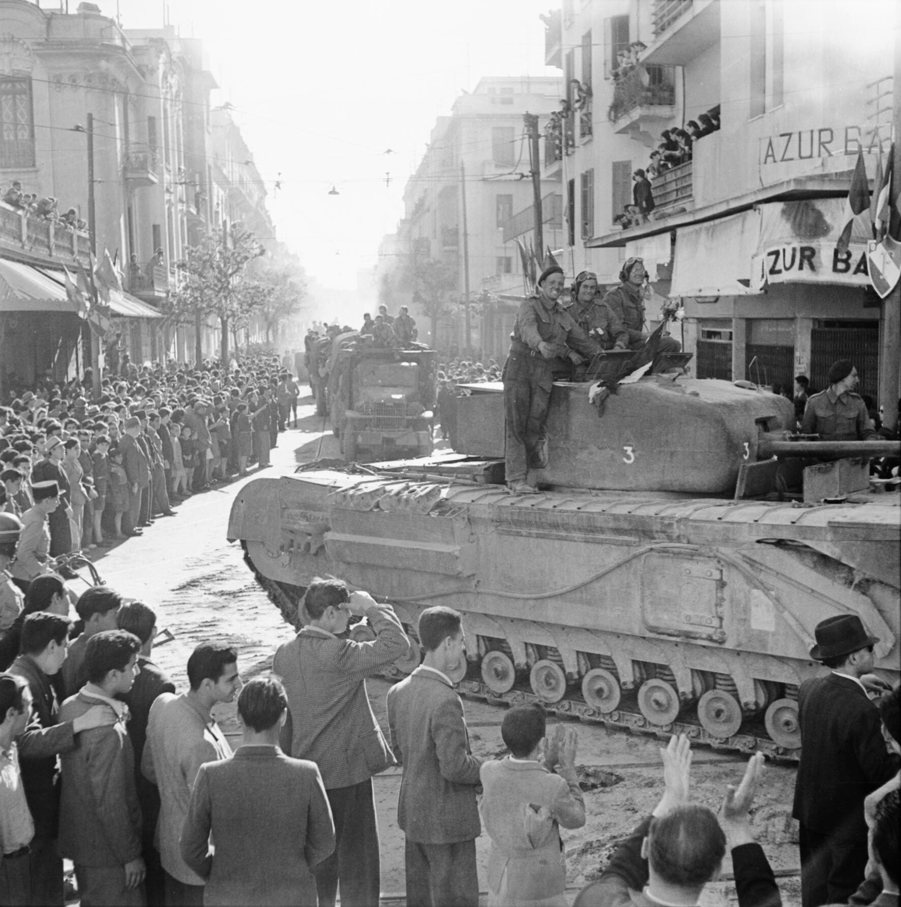 A Churchill tank and other vehicles parade through Tunis, 8 May 1943. A Churchill tank and other vehicles parade through Tunis, 8 May 1943.